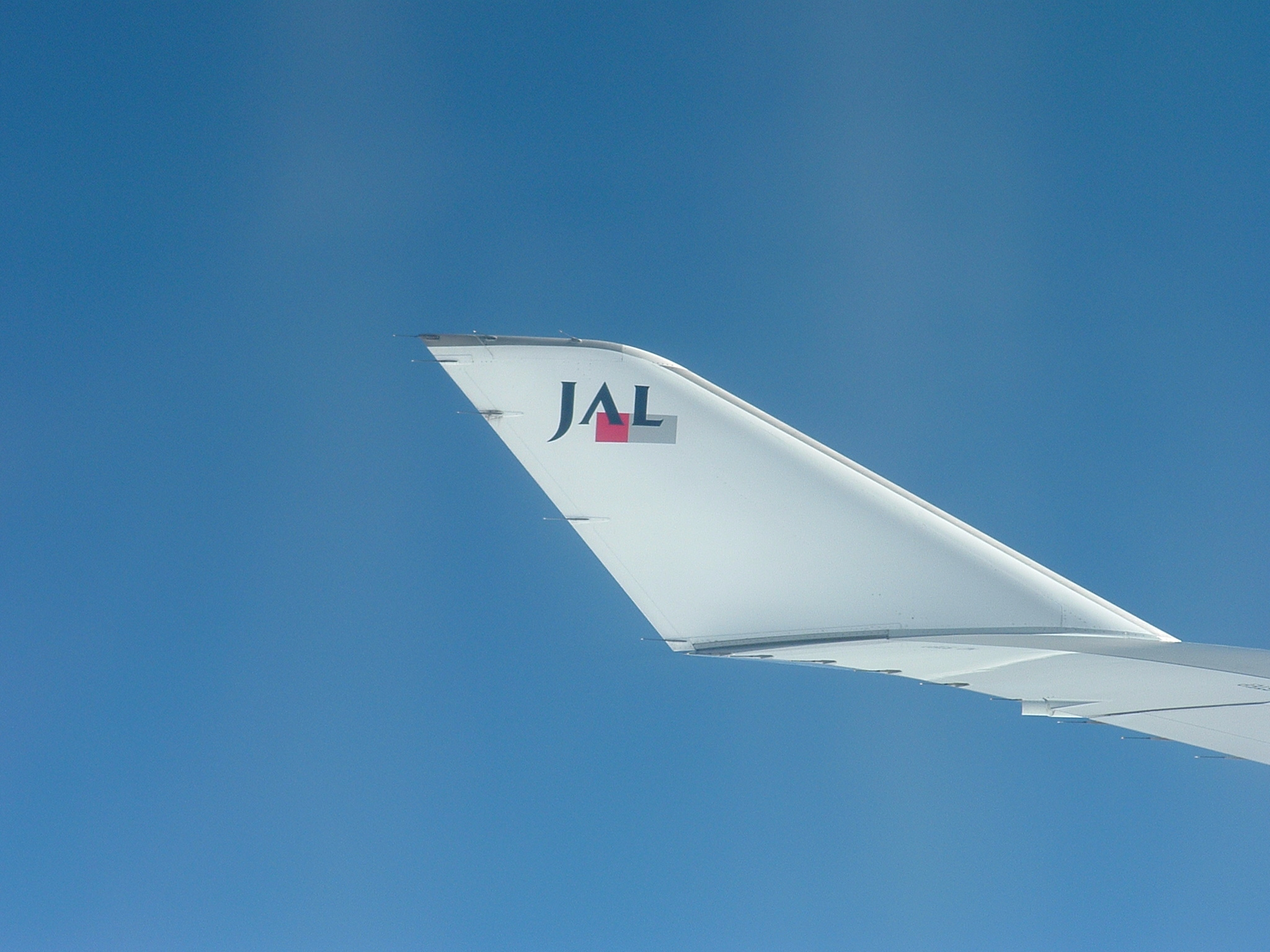 JAL Wing Logo Photographer: Simon Laird